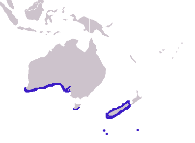 Distribution of the New Zealand Fur Seal, Arctocephalus forsteri